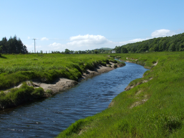 Rusland Pool. Rusland Pool looking towards the Rusland Pool Hotel and the A590.